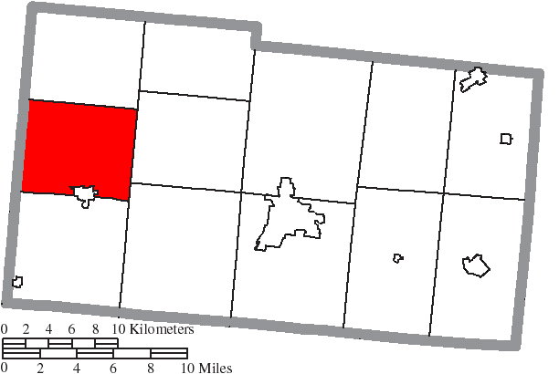 Map of the municipal and township boundaries of Champaign County, Ohio, United States, as of the 2000 census, with the location of Johnson Township highlighted. Township borders are shown only in unincorporated areas in order to differentiate incorporated and unincorporated areas more clearly.